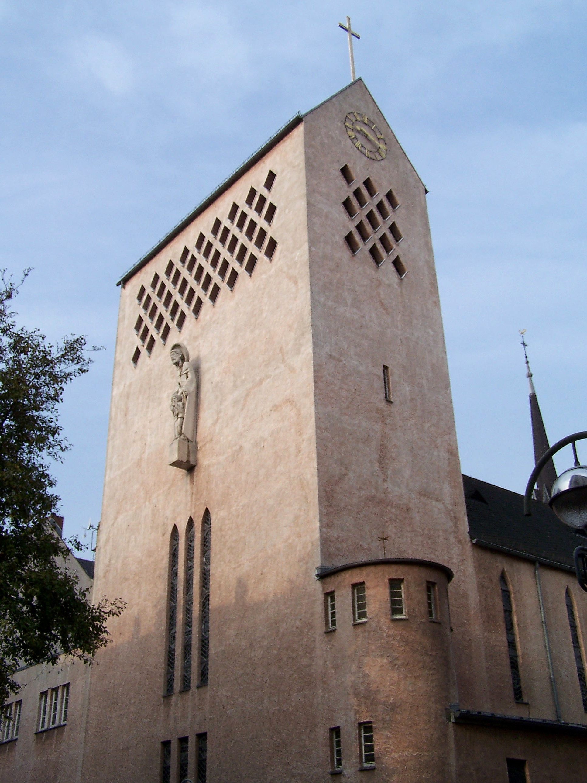 Tower of the new St.-Josefs Church in Frankfurt am Main-Bornheim of 1931, situation of 2009